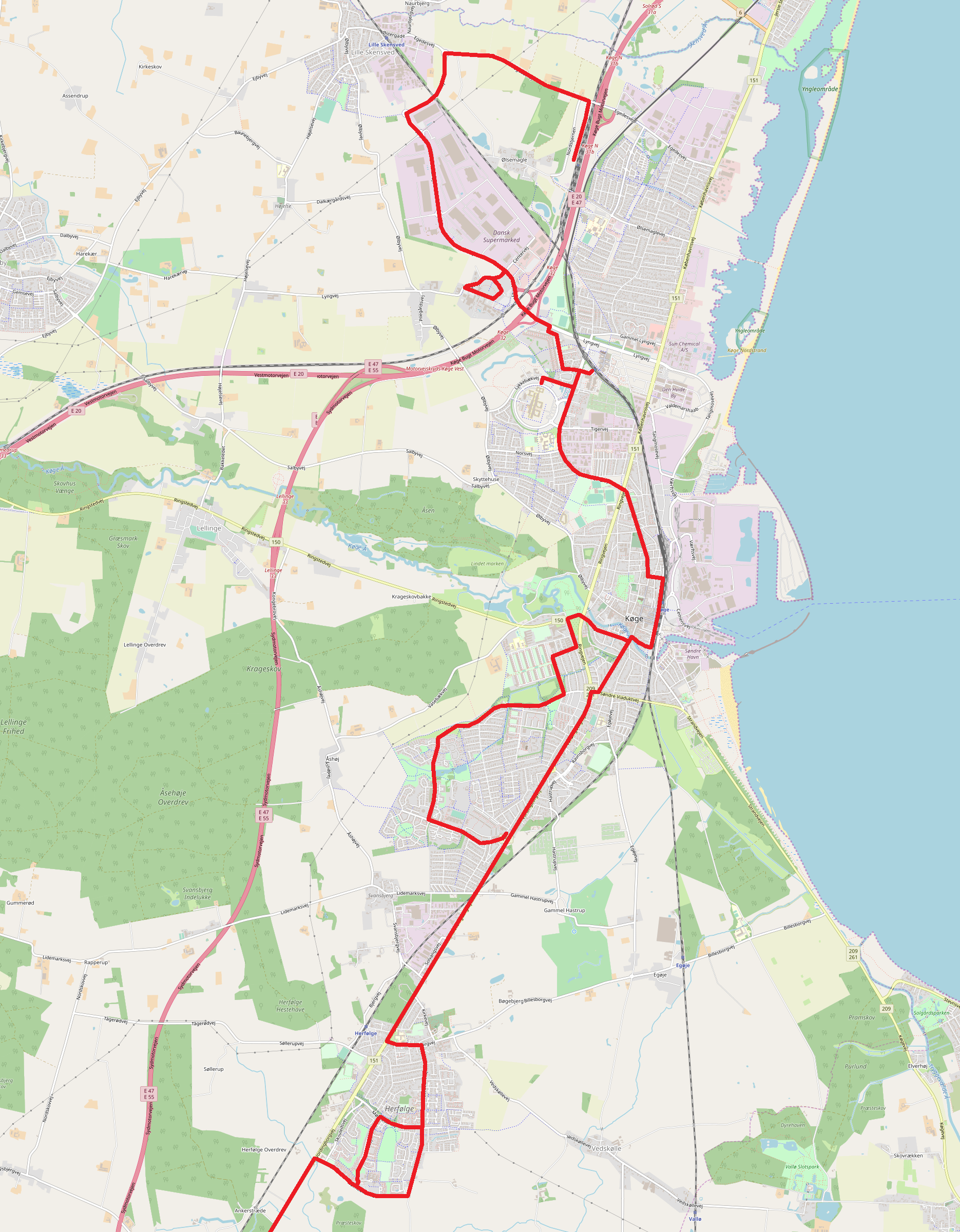 Map of the Køge A-bus network as of June 2019. This map may be incomplete, and may contain errors. Don't rely solely on it for navigation.